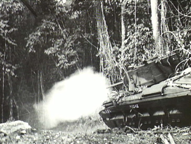 A Matilda tank of A Squadron, 1st Tank Battalion fires its 2-pounder at Japanese foxholes in a re-enactment of an earlier scene.